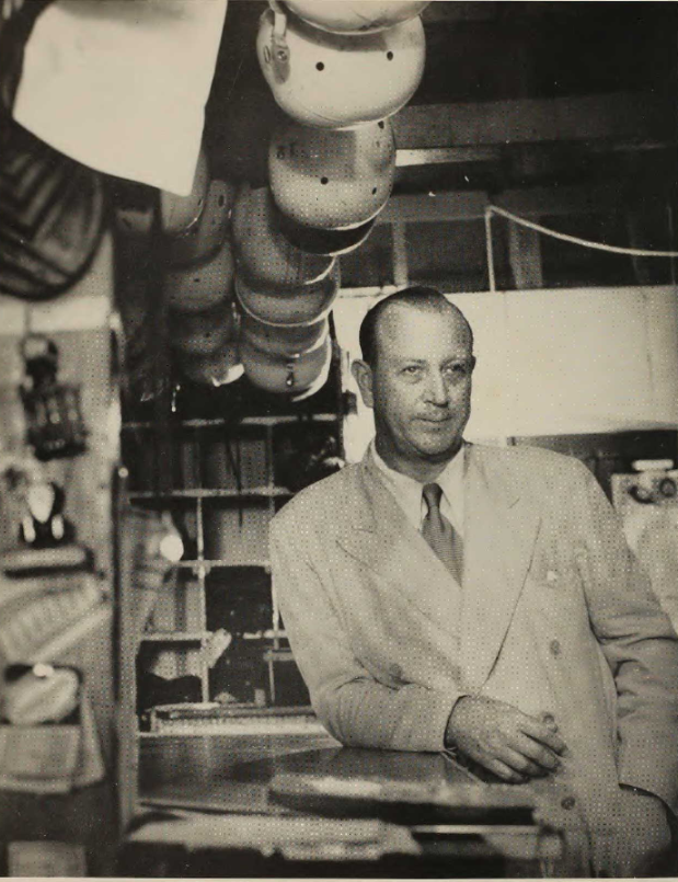 Photograph of University of Miami coach Andy Gustafson